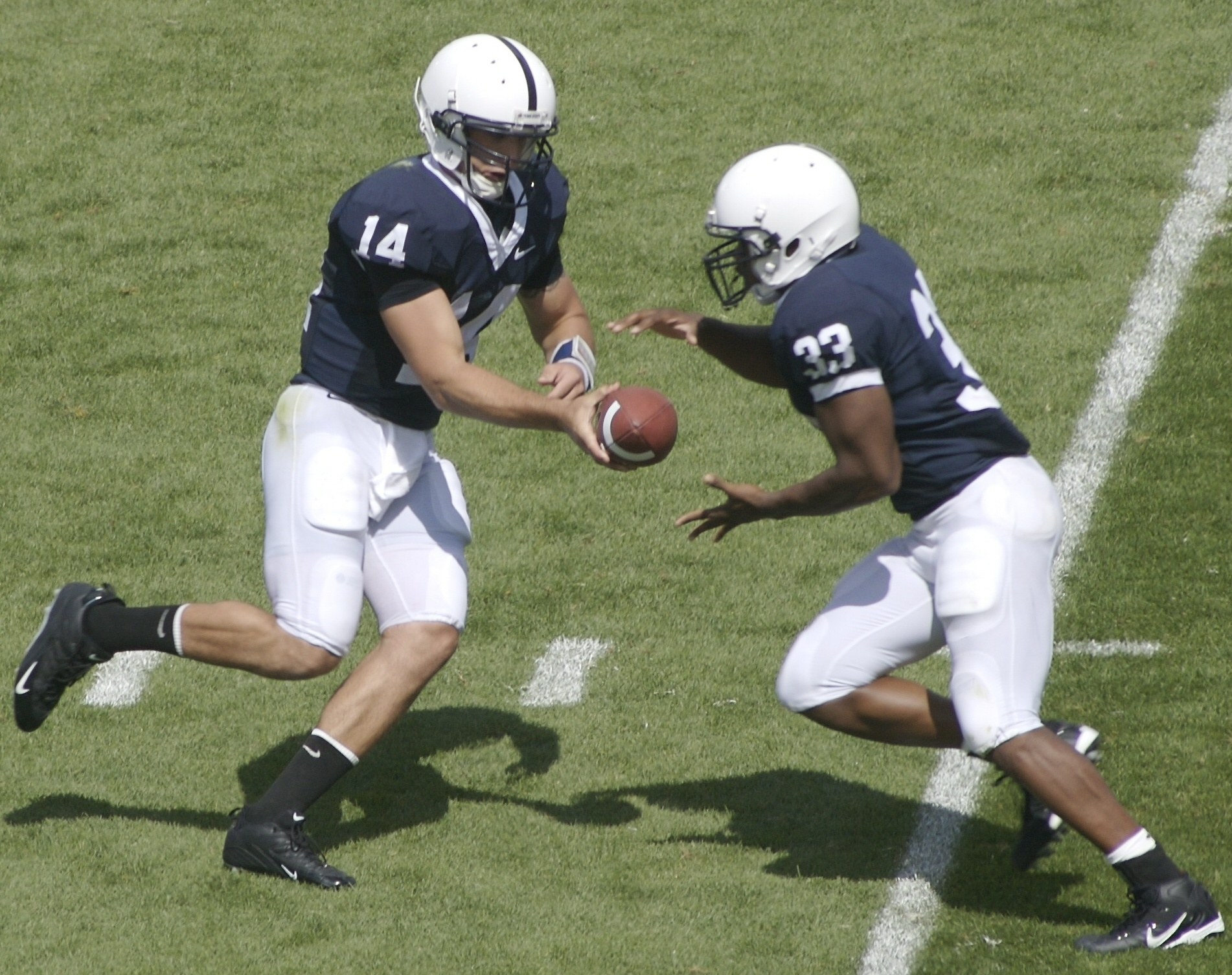 Penn State quarterback #14 Anthony Morelli hands the ball off to his tailback #33 Austin Scott in their 2007 season opener.